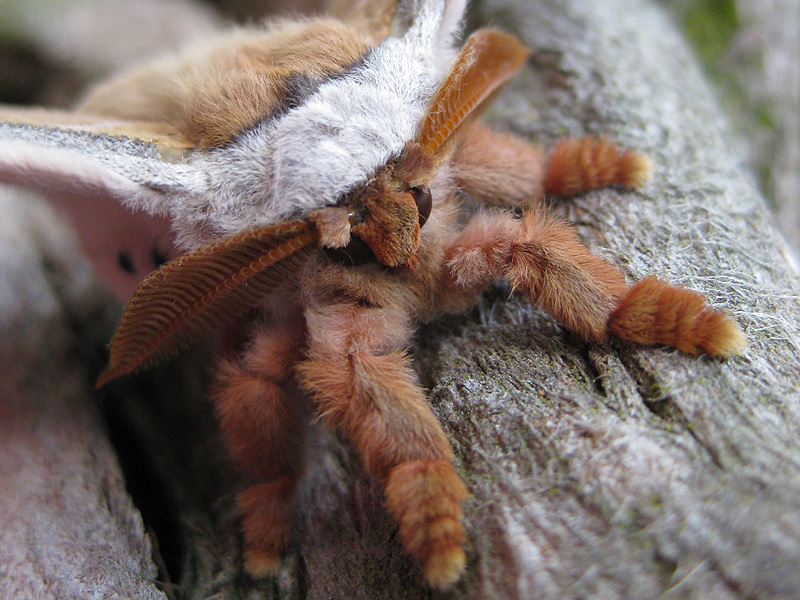 A male Emperor Gum Moth, sighted in Wellington, New Zealand.